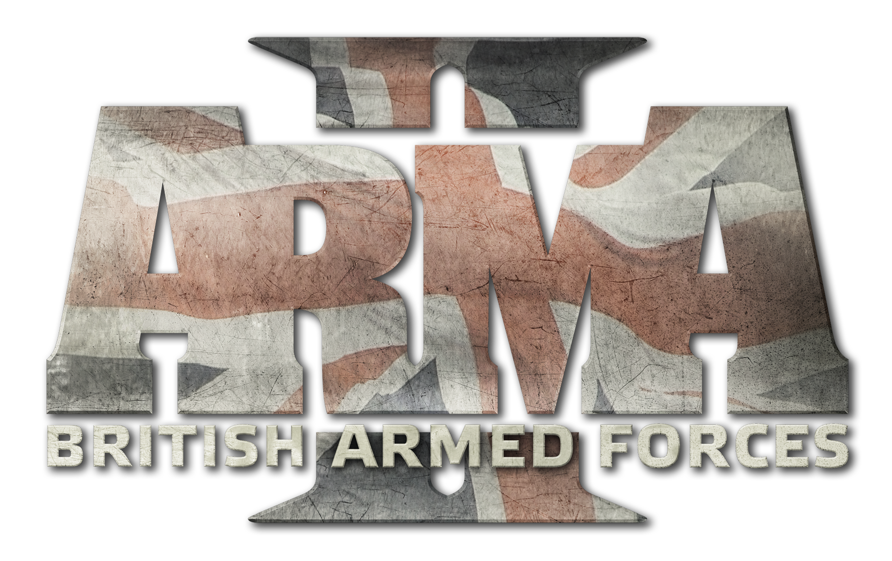 ArmA II BAF DLC (2010) logo.